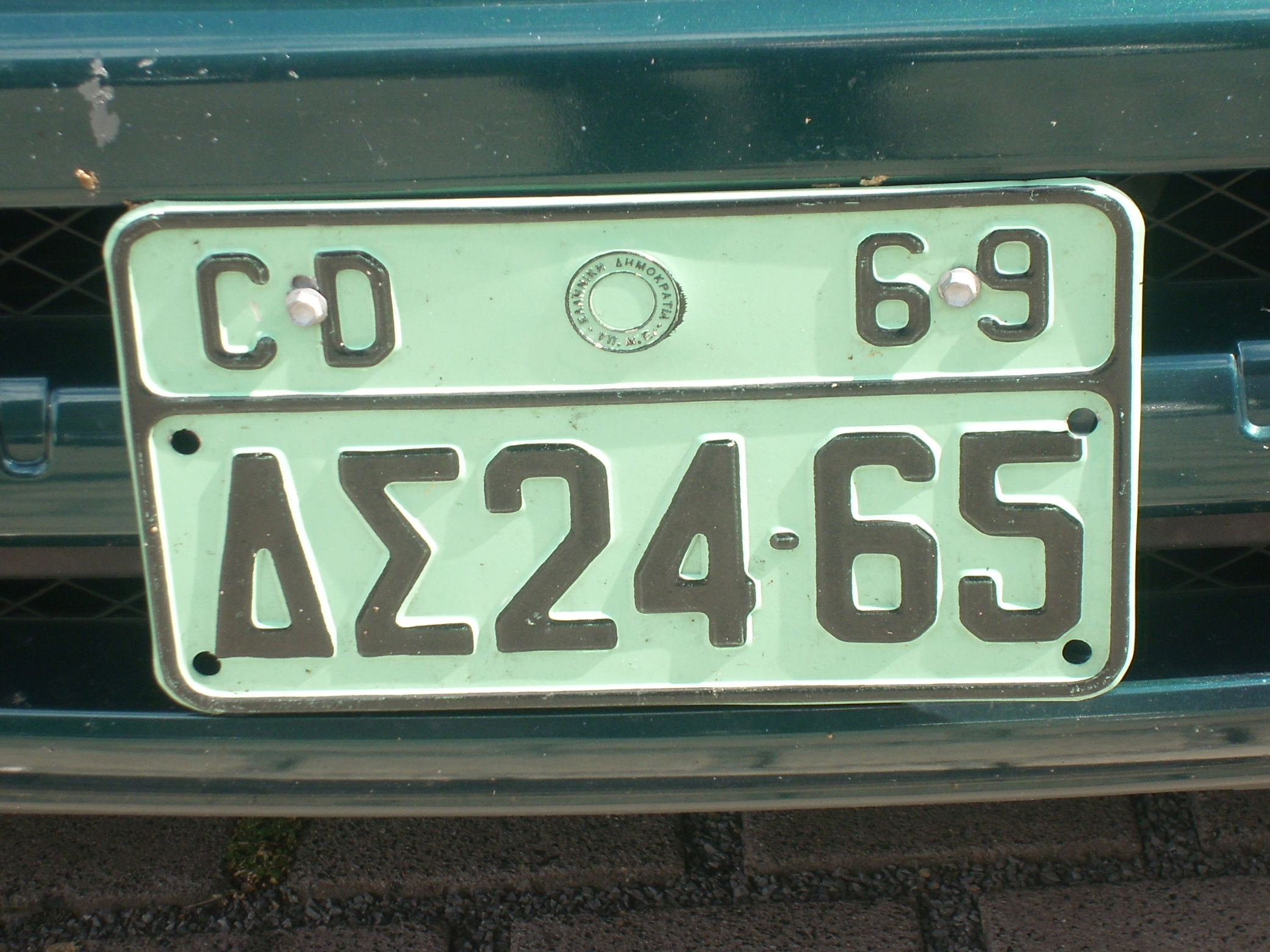 Greek licence plate for the Corps Diplomatique. The CD-plates are still issued in the oldest size of Greek plates. Photographed in Offenbach, Germany